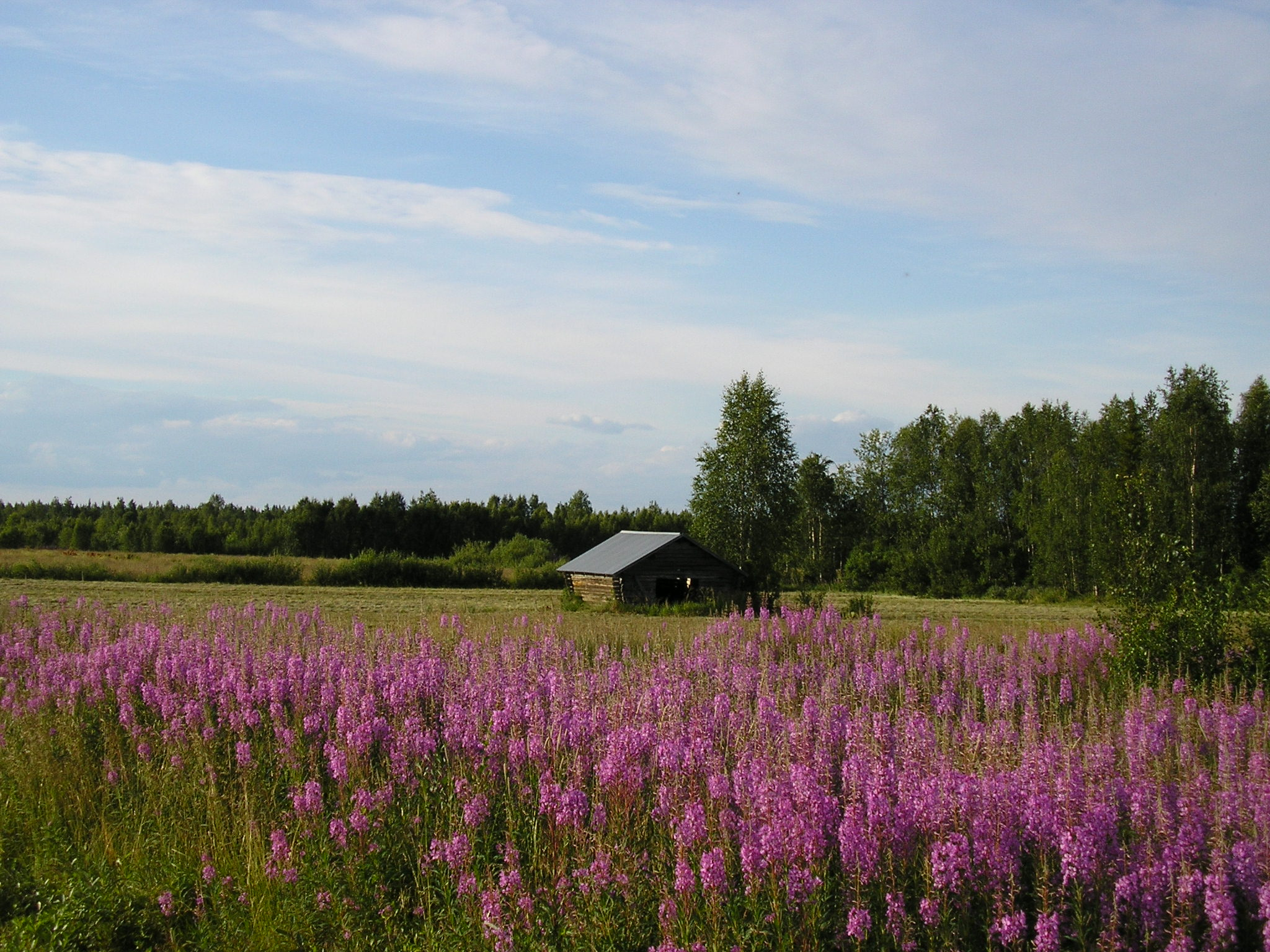 Tornevalley